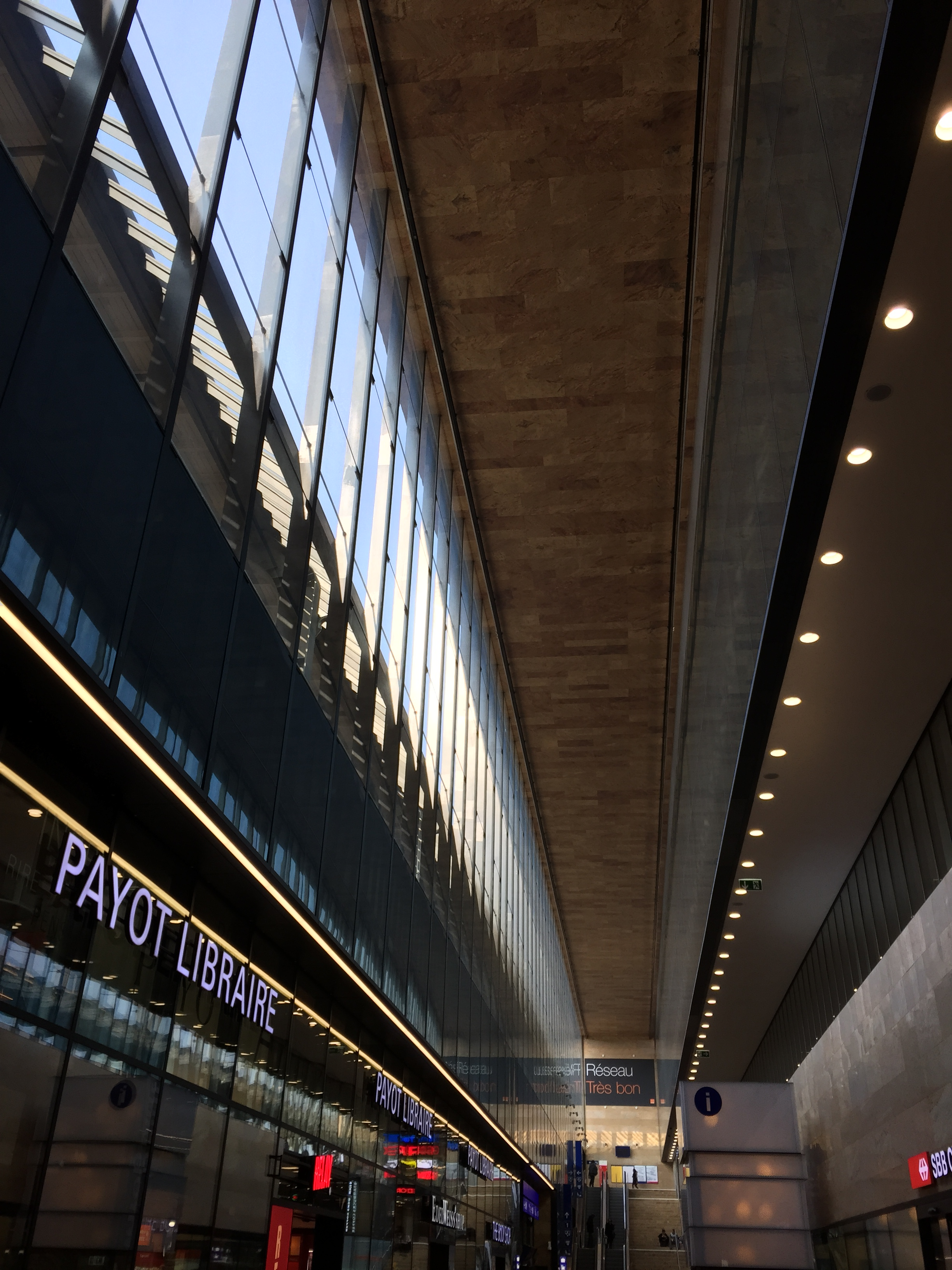 Genève-Cornavin railway station